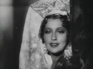 Cropped screenshot of Jeanette MacDonald from the trailer for the film The Firefly